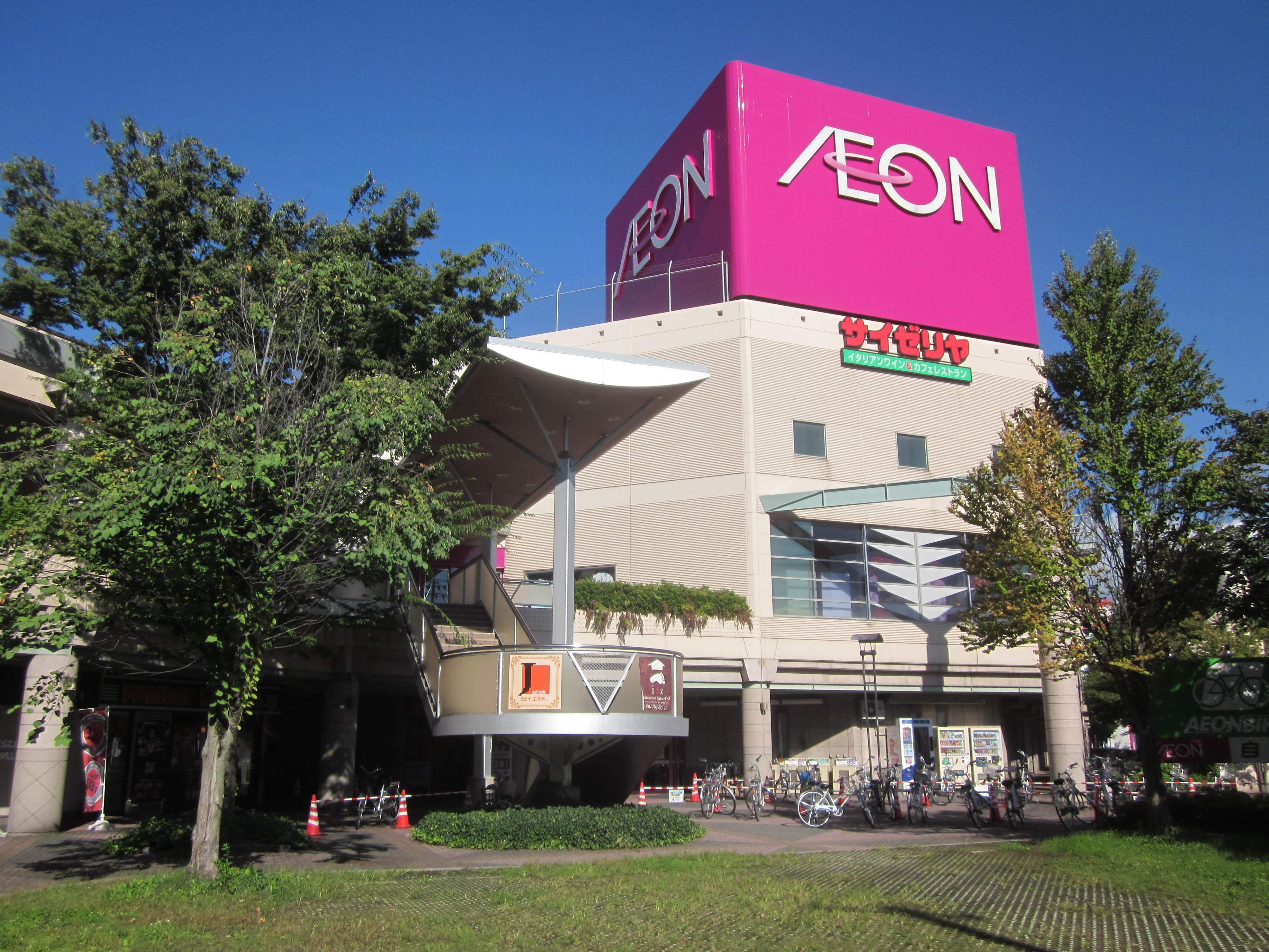 Aeon Yonezawa store Yonezawa, Yamagata Prefecture Kasuga 2-13-4